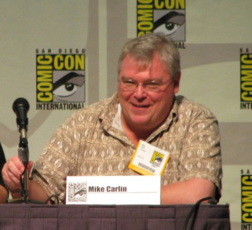 Cropped from original to show Mike Carlin at San Diego Comic Con 2007.